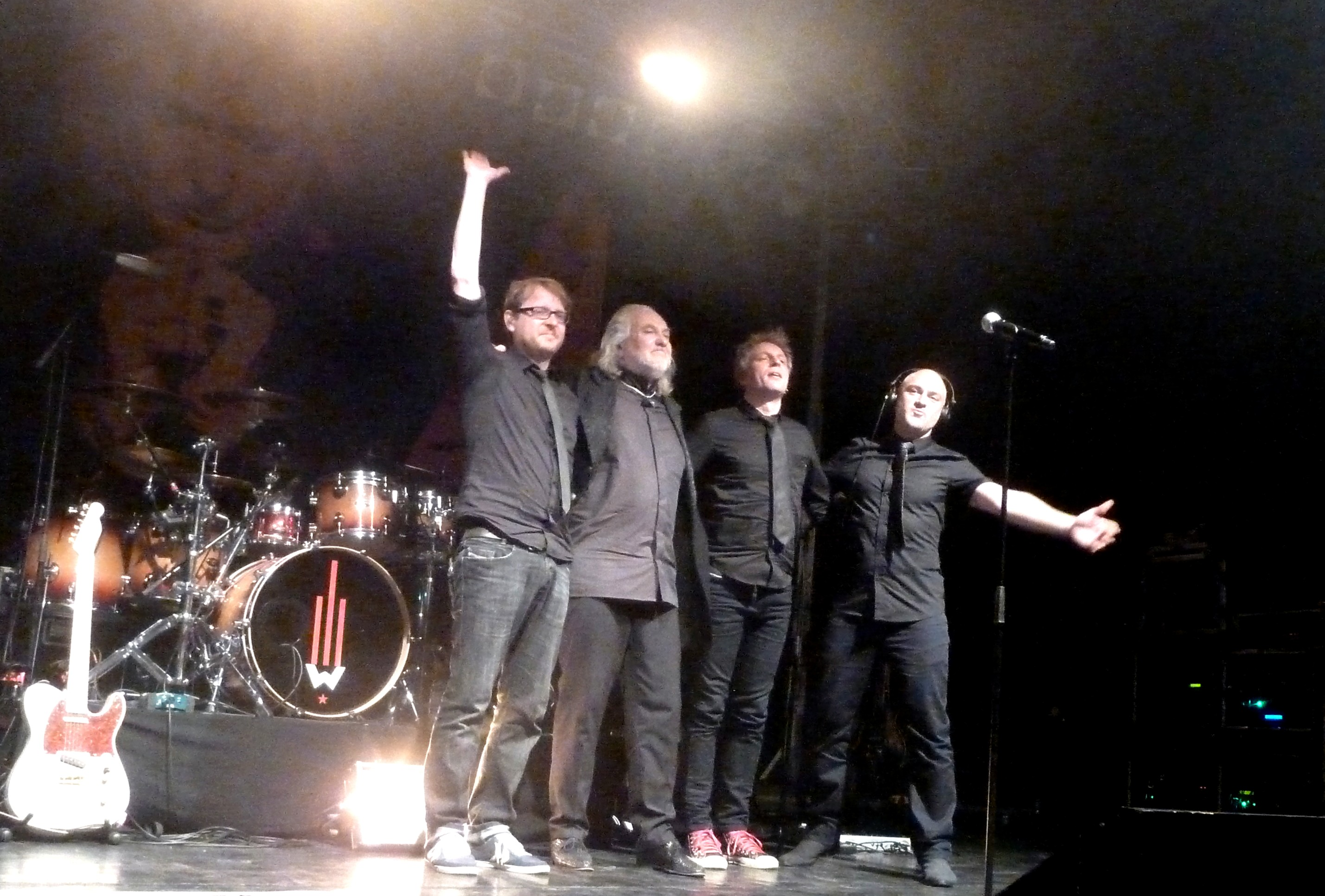 Joachim Witt with band